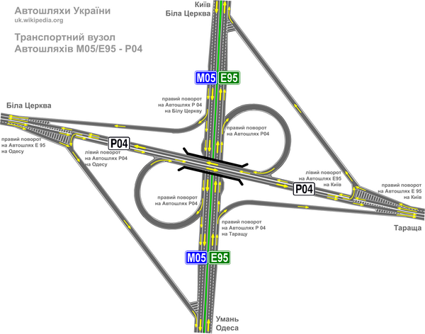 Highway Junction M05(E95)-P04 near Bila Tserkva - Ukrainian